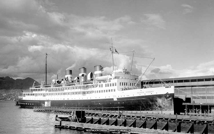 This photo of CNSS Prince Robert is from the Canada Science and Technology Museum Corporation's web site "CN images of Canada Gallery" and has been posted with permission. Passenger ship SS Prince Robert docked in Vancouver, Vancouver, British Columbia, Canada [n.d.] Photographer: unknown Subject: Passenger ships Image No.: CN001580 CSTMC/CN Collection